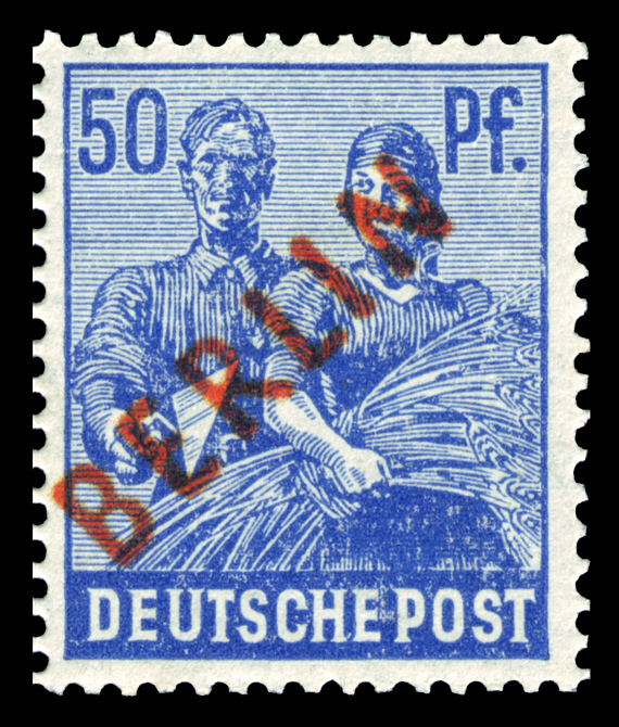 Freimarkenserie mit Rotaufdruck Berlin